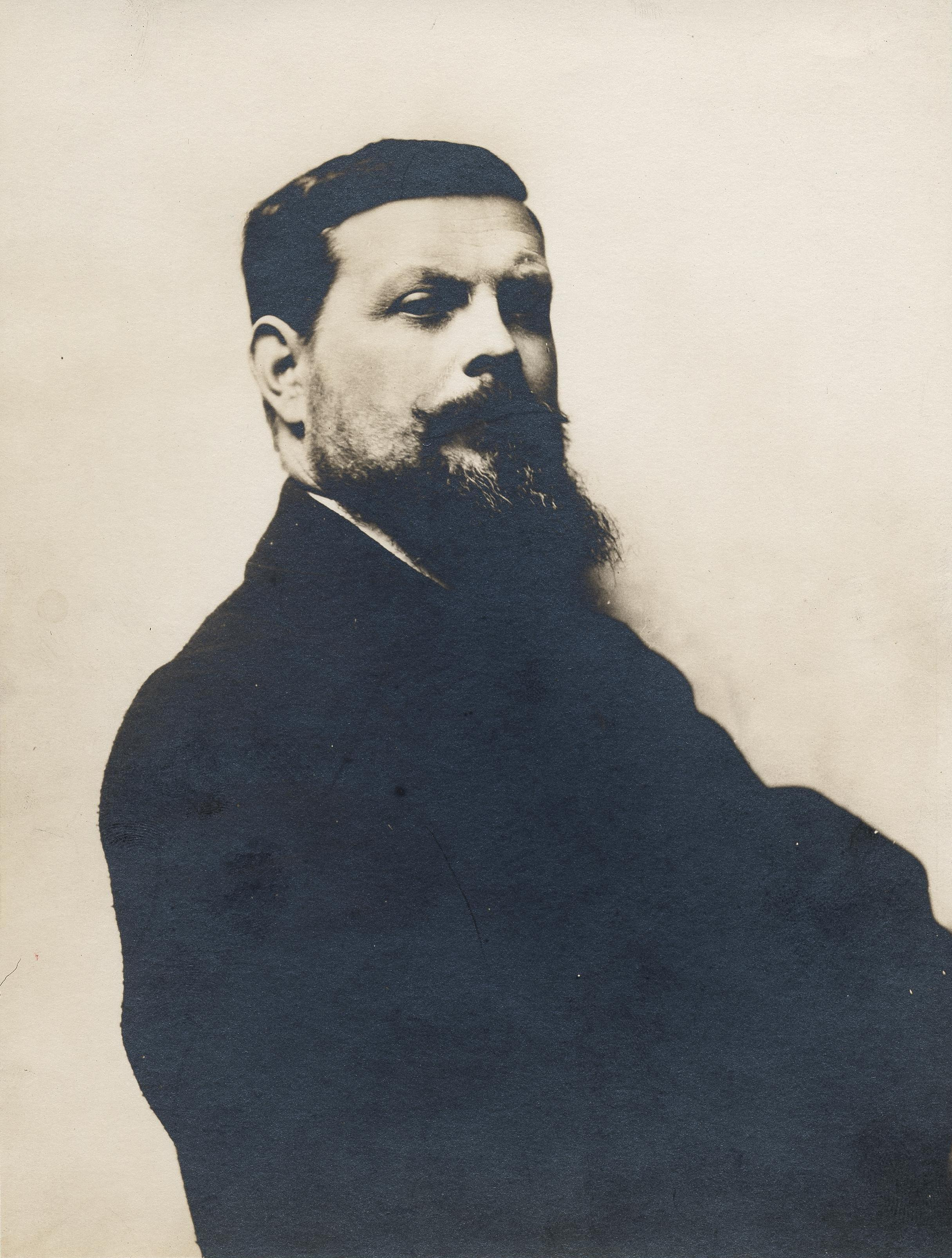 Description: Photographer unknown. Brangwyn, Frank, Sir, 1867-1956 Creator/Photographer: Unidentified photographer Medium: Black and white photographic print Dimensions: 22 cm x 17 cm Date: 1920 Persistent URL: [1] Repository: Archives of American Art Native nameArchives of American ArtParent institutionSmithsonian InstitutionLocationWashington, D.C.Coordinates38° 53′ 52.44″ N, 77° 01′ 21.72″ W Established1954Web page control : Q2860568 VIAF: 151134814 ISNI: 0000 0001 2185 0758 LCCN: n79065944 NLA: 35007823 GND: 1085306631 WorldCat Collection: Forbes Watson Papers, 1900-1950 Accession number: aaa_watsforb_3496